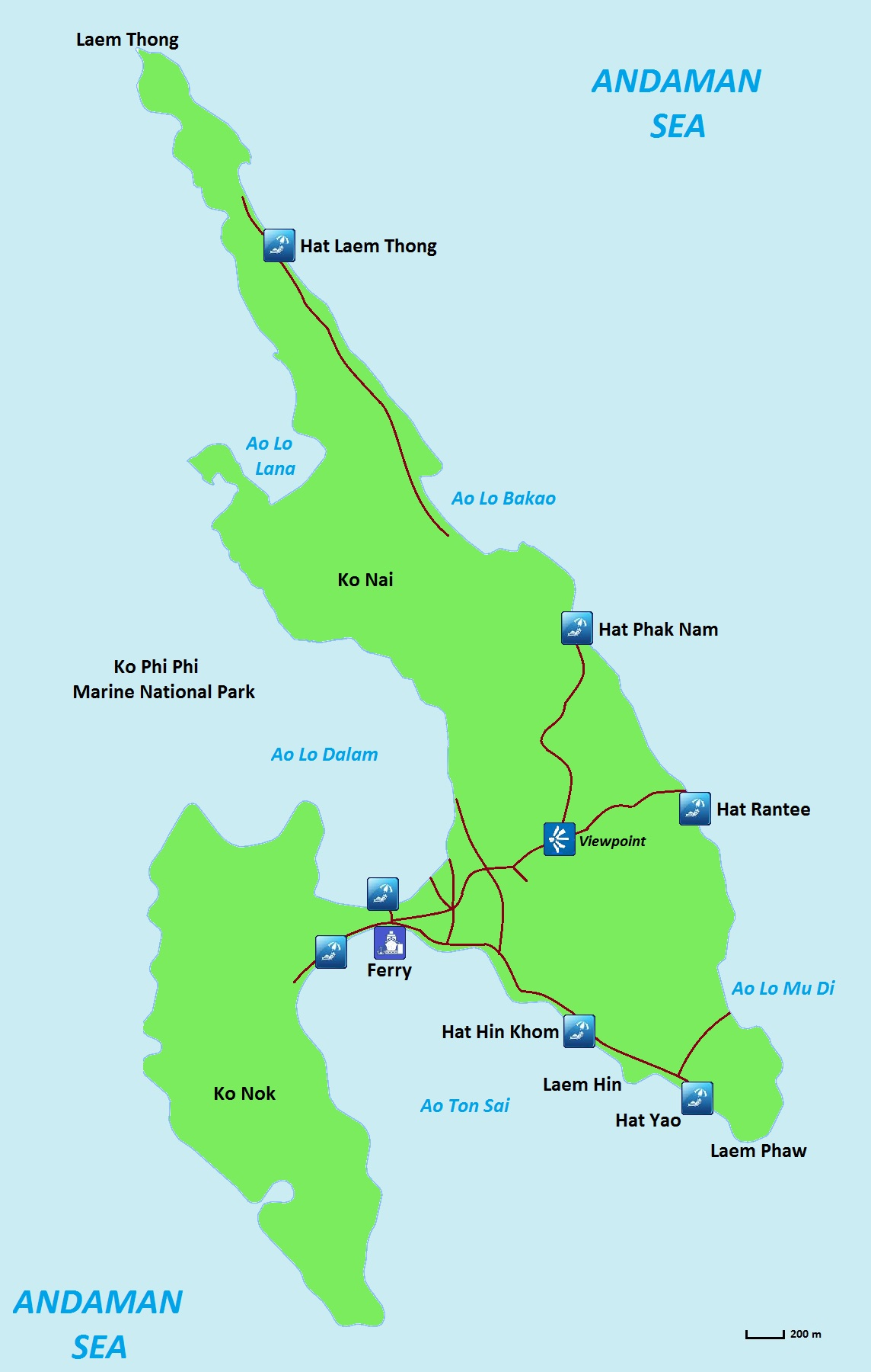 Map of Ko Phi Phi Don